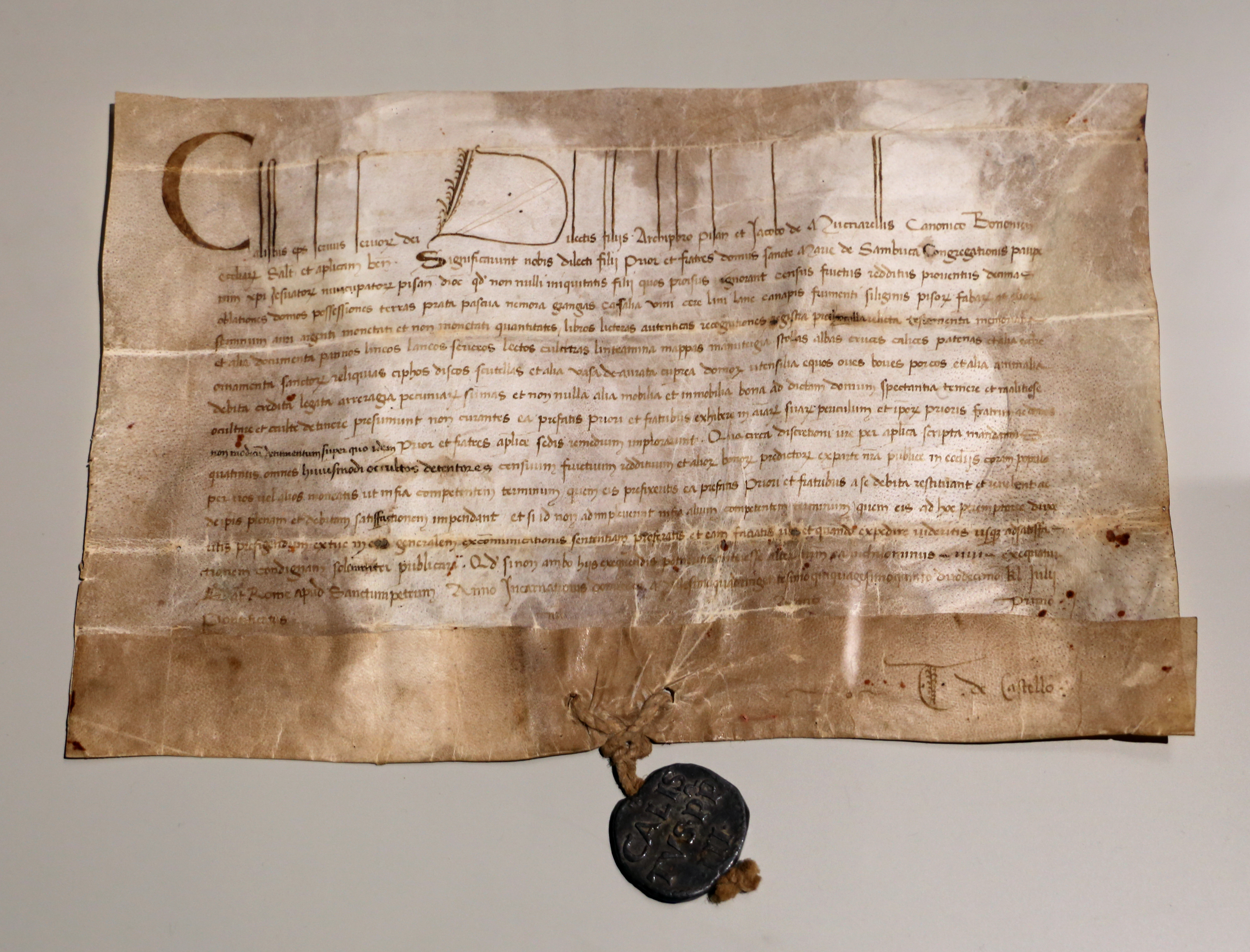 Collections of the Museo della città (Livorno)